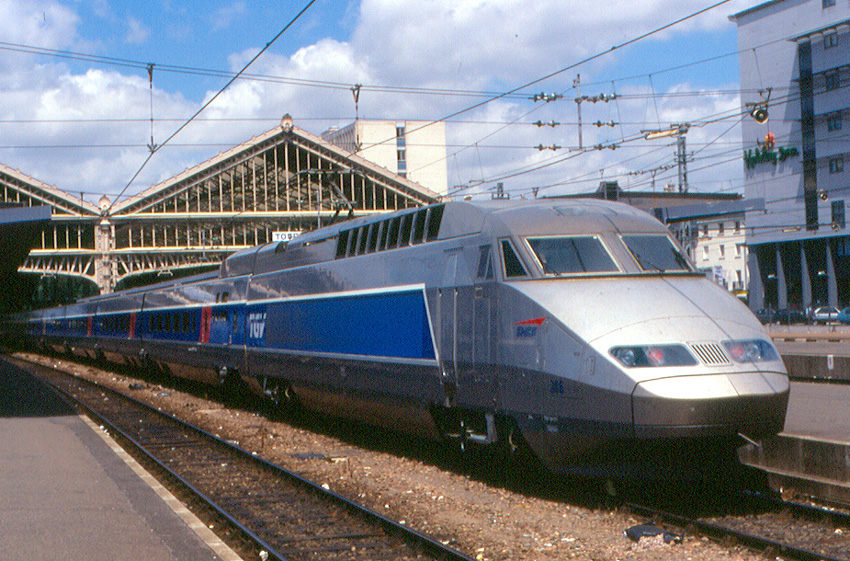 I flew to Paris, and took this TGV train to Tours. The train was on the TGV Atlantique line, which runs from Paris (Montparnasse) to Tours or Le Mans. TGV is "train à grande vitesse" (high speed train). This train set has a top speed of 300 kph (186 mph). The trip of 235 km (147 miles) took 70 minutes, with two stops. One of the stops was St.-Pierre-des-Corps, the main TGV station outside Tours. The photo is in the Tours station.